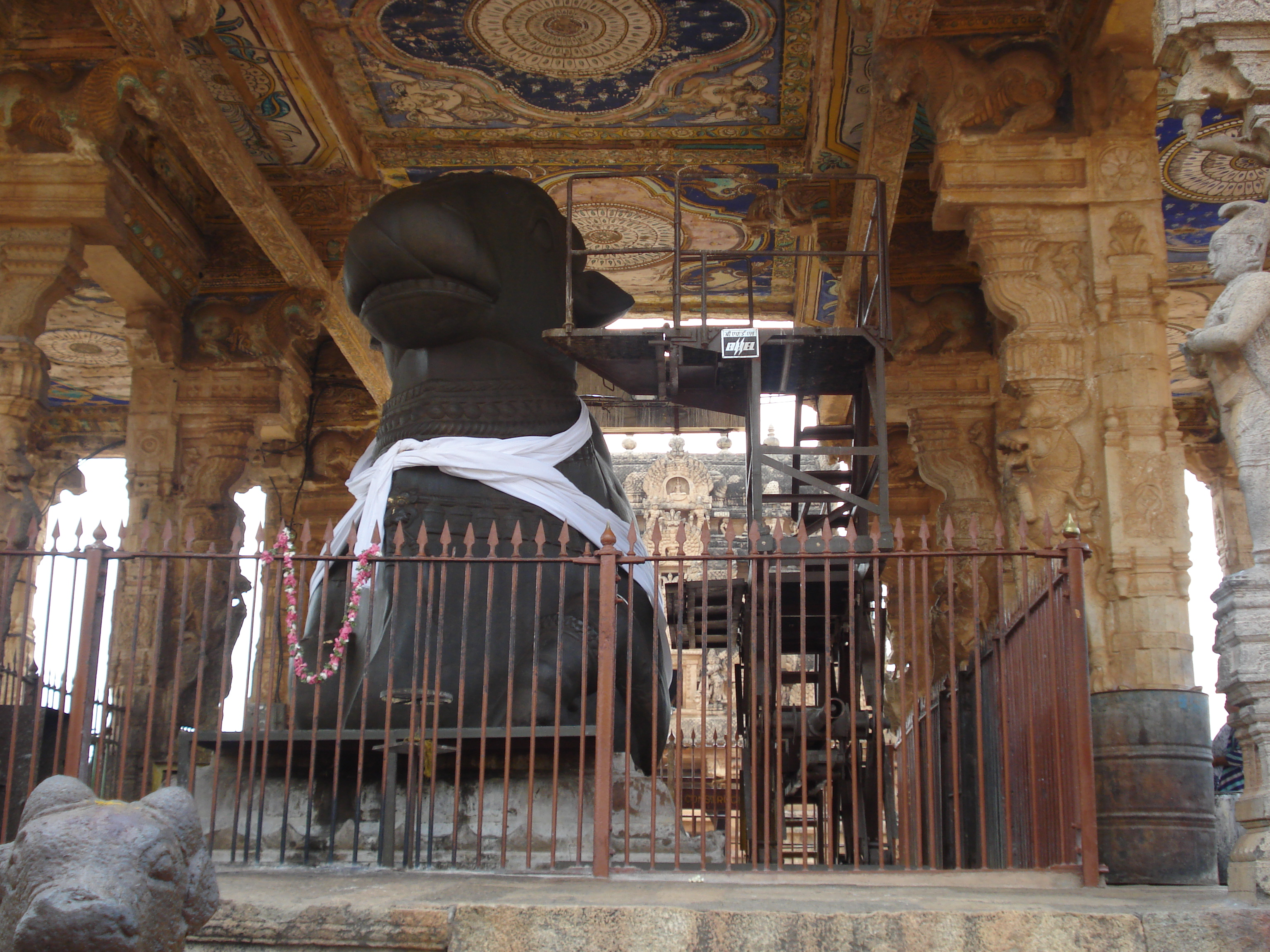 This is the second largest monolithic nandi in India. Measuring 6 mtrs in length, 2.6 mtrs in breadth and 3.7 mtrs in height.